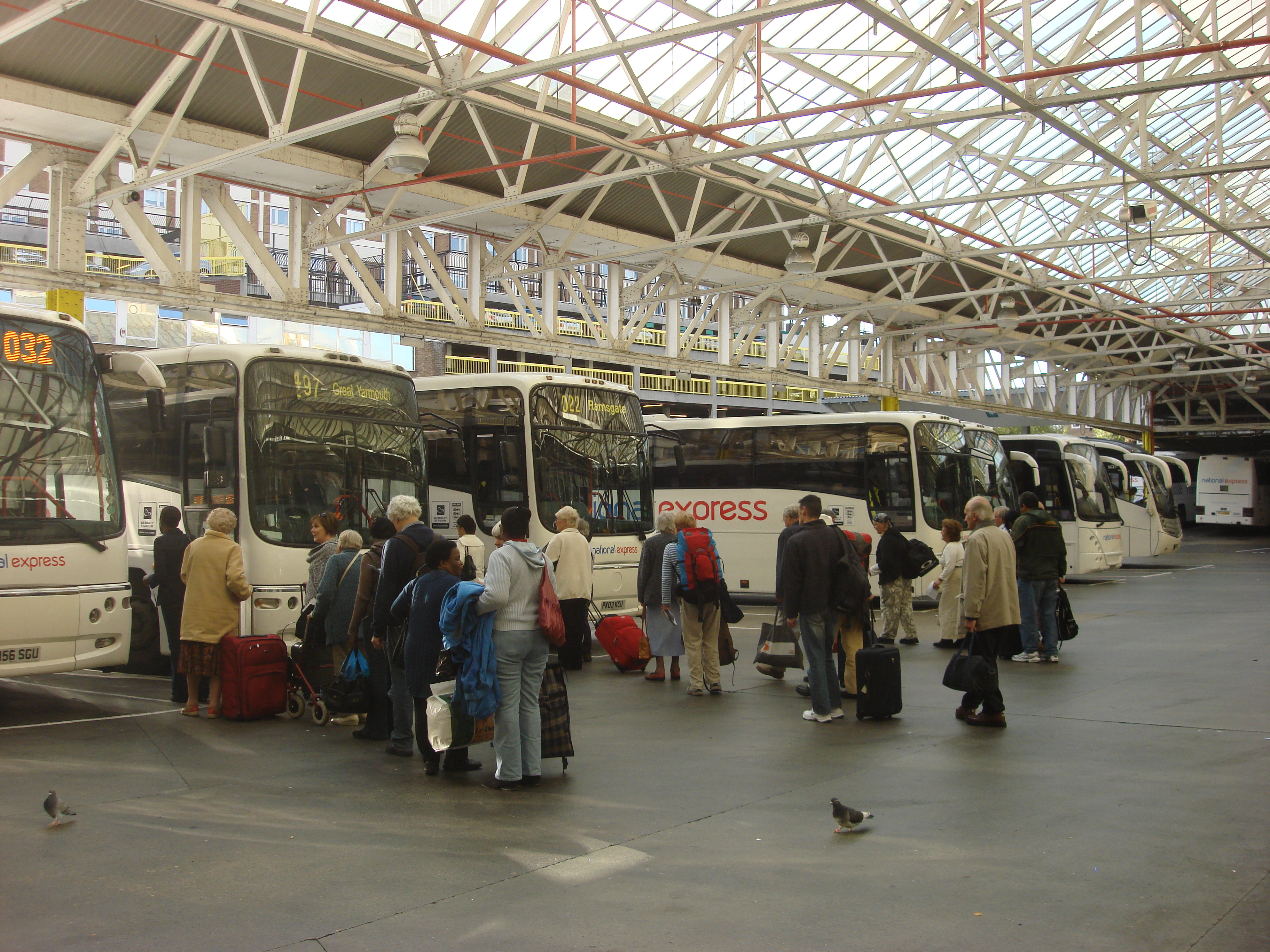 Victoria Coach Station